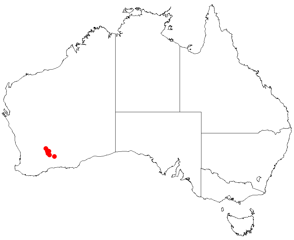 Hakea pendens Occurrence data downloaded from Australasian Virtual Herbarium on 22 November 2018 using